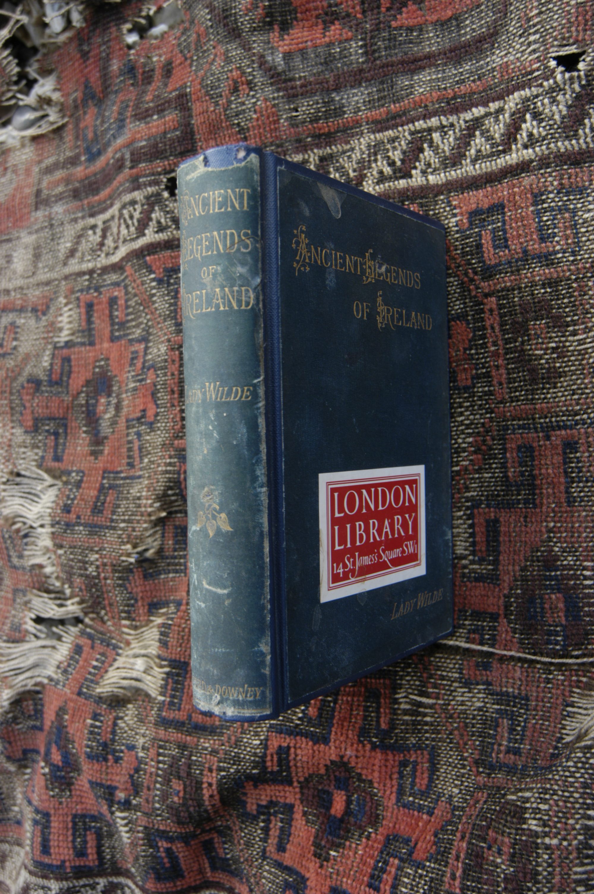 Photo (by me, R. de Salis, Rodolph (talk) 23:12, 1 December 2014 (UTC)) of the London Library's copy of Lady Wilde's, 'Ancient legends, mystic charms, & superstitions of Ireland : with sketches of the Irish past'. Ward and Downey, London, 1888.